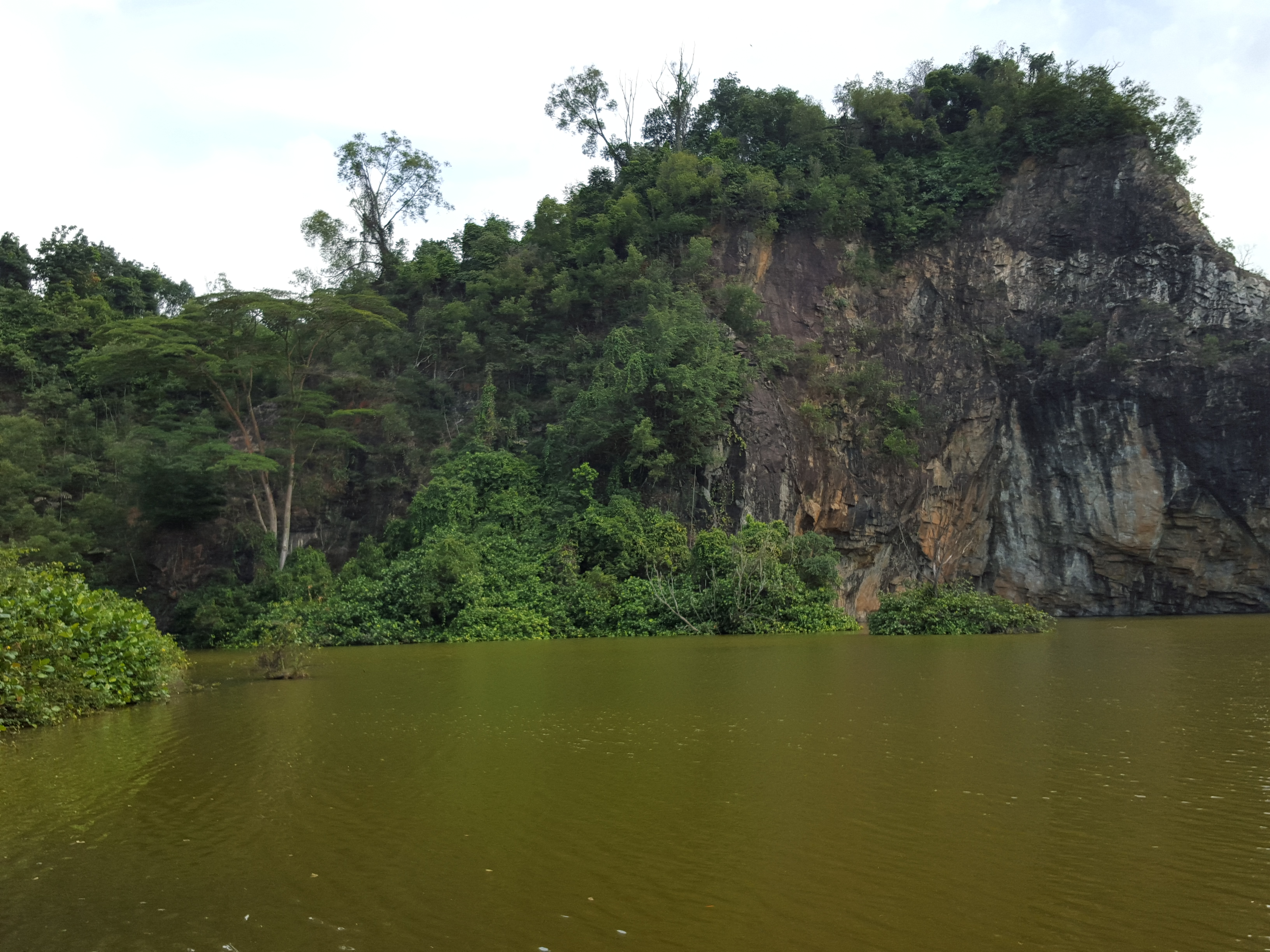 A water-filled quarry at Bukit Gombak Nature Park, Singapore